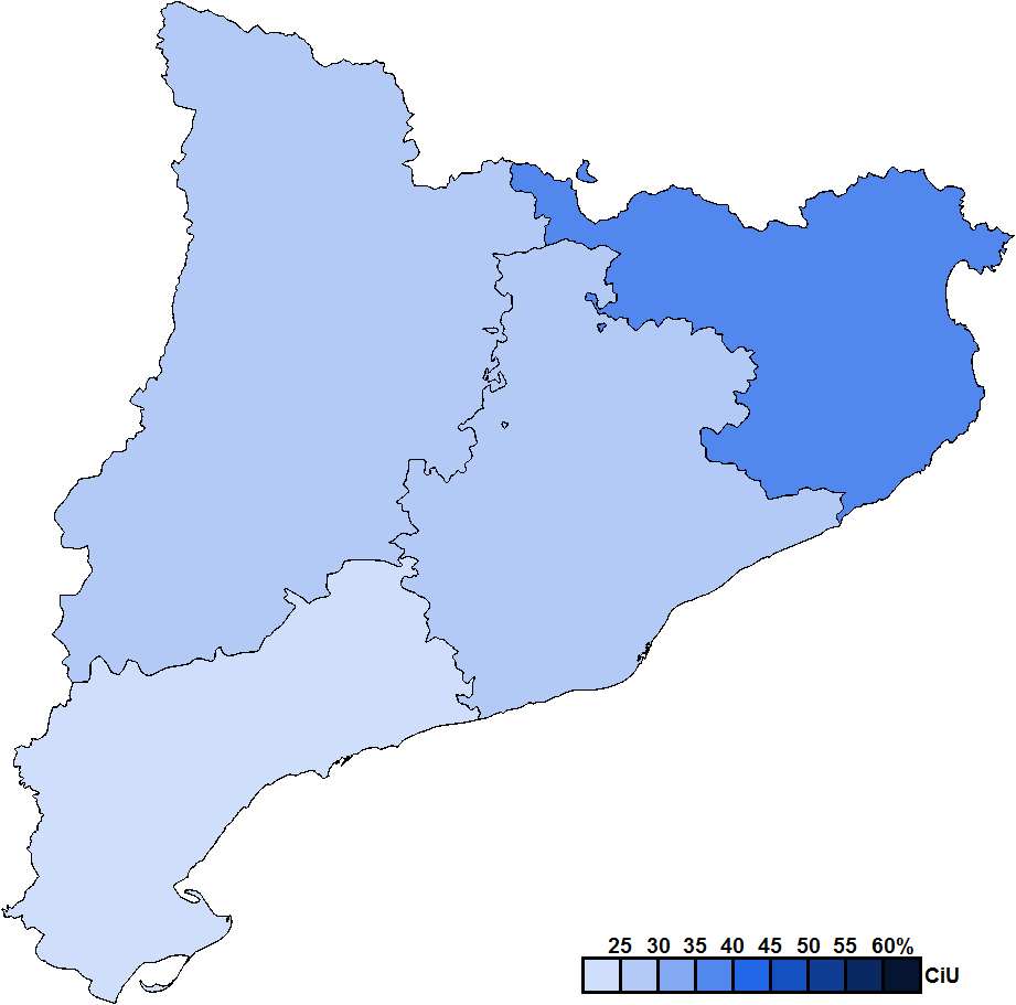 Provincial results for the 1980 Catalan regional election.